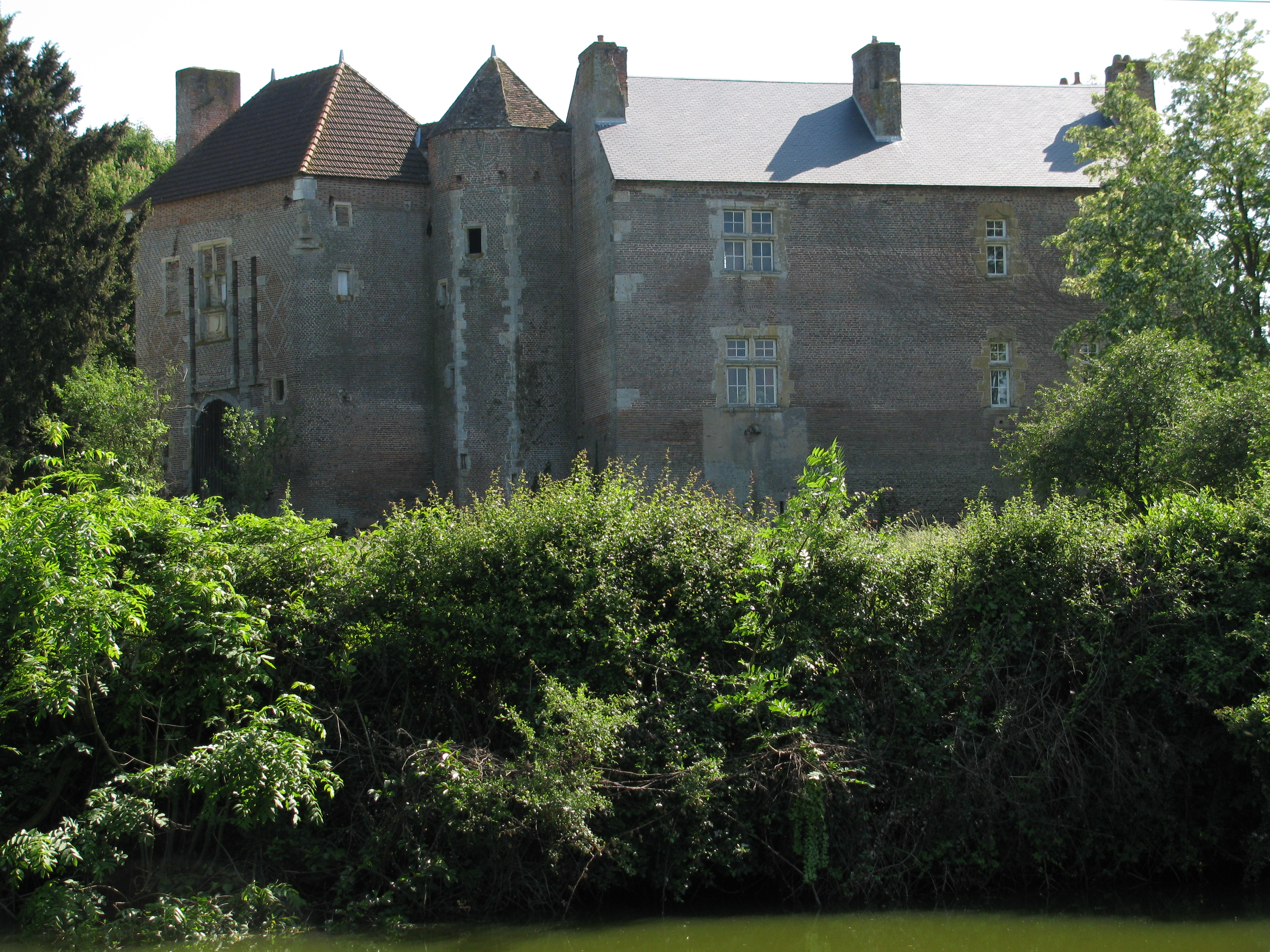 Champlevois manor house